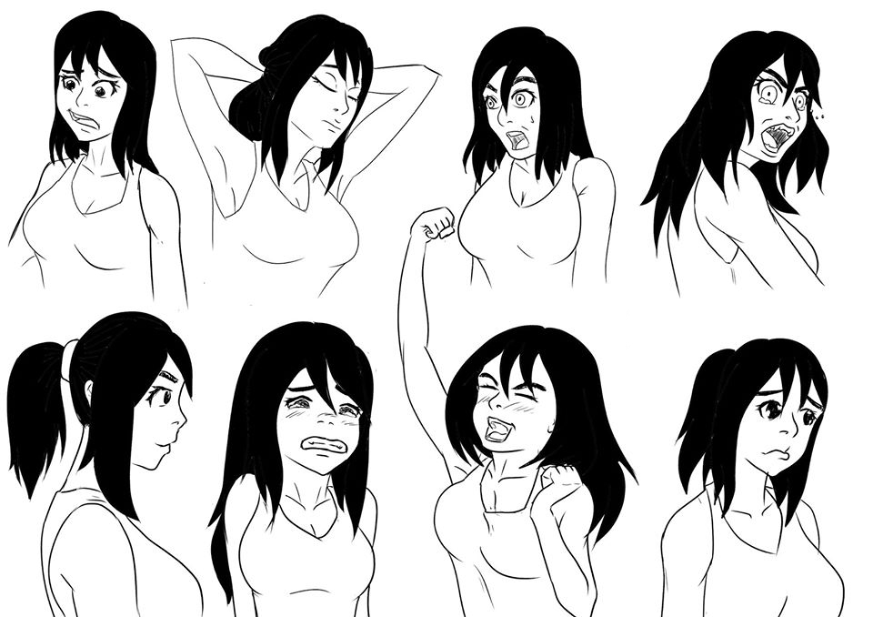 My original character emotion that I drew during art class.